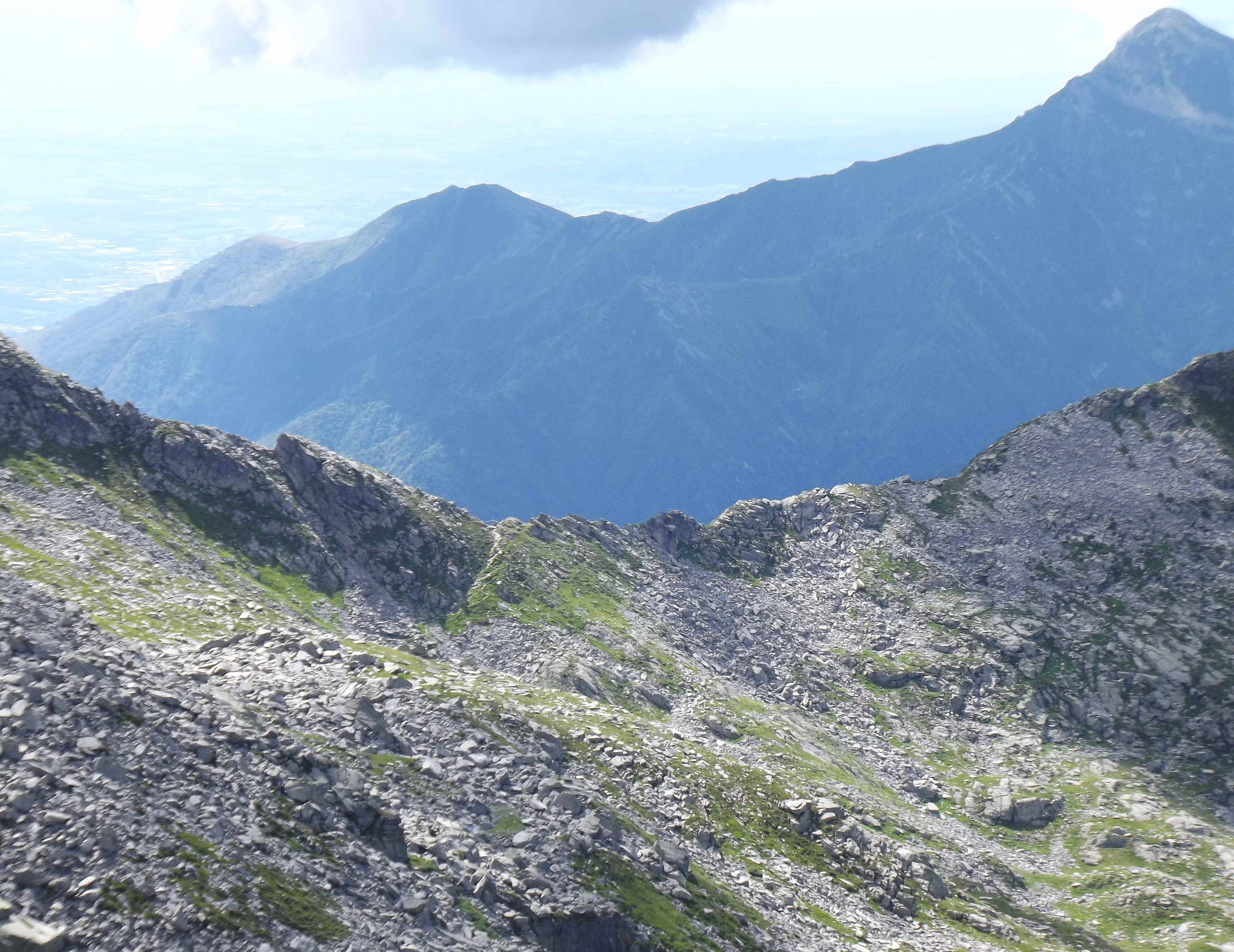 Mologna Grande pass as seen from punta Lazoney (Pennine Alps); on its right the monte Tovo